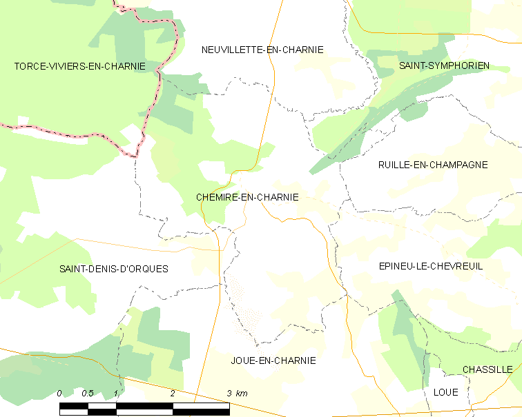 Map of French municipality